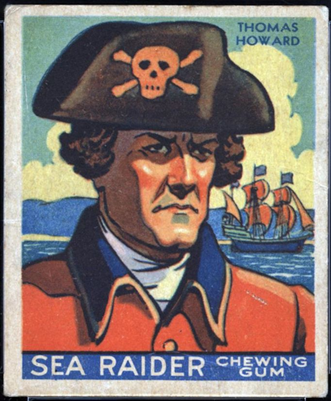 Captain Thomas Howard from the 1933 World Wide Gum Co. "Sea Raiders" trading card series